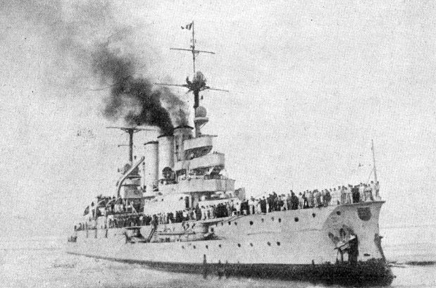 The German battleship Elsass serving as an icebreaker to free the Polish ship SS Tczew, 15 March 1929 in Kiel Bay.